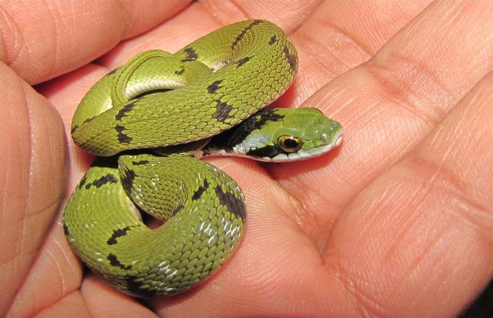 Juvenile Green Keelback (Macropisthodon plumbicolour)